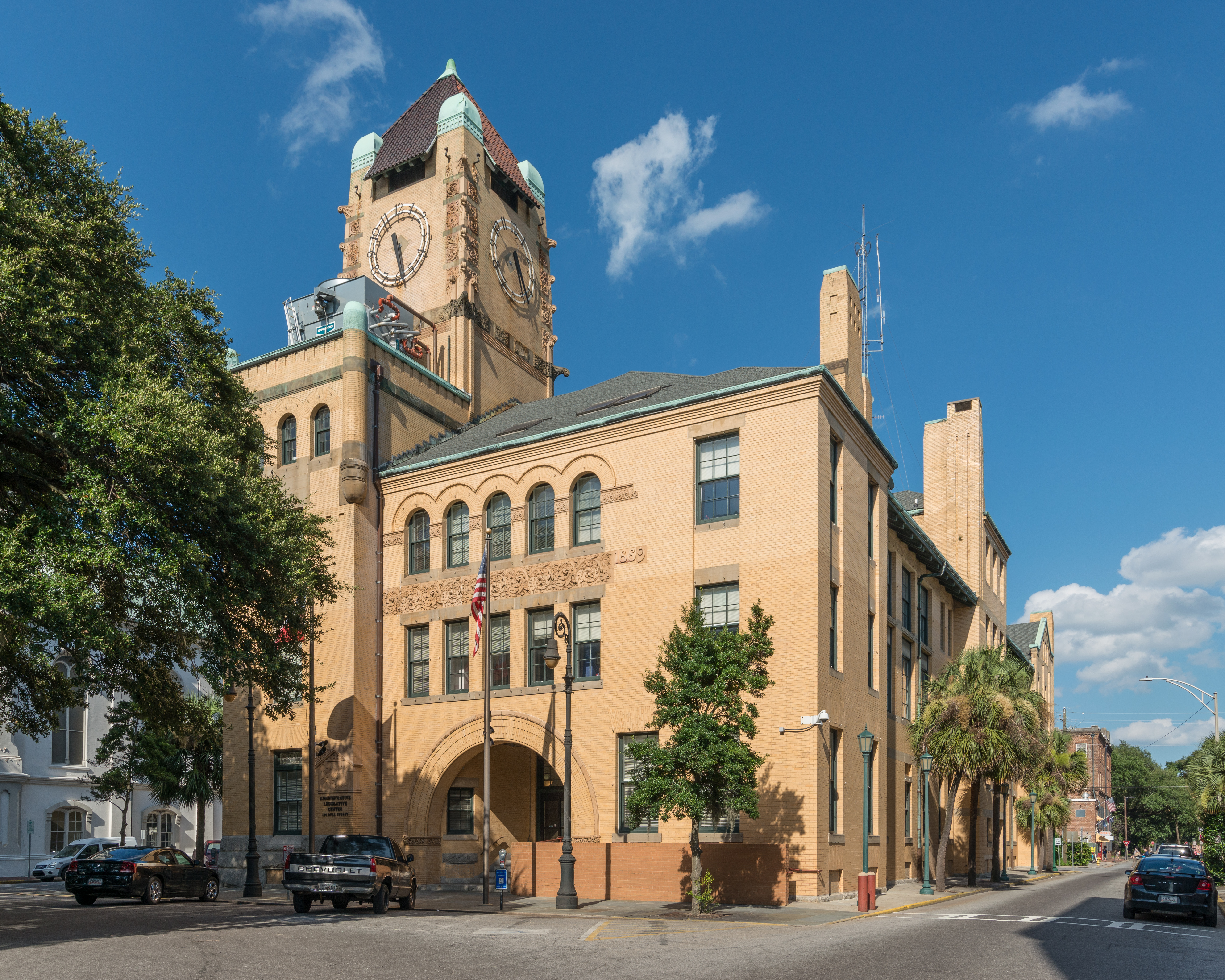 An east view of the Chatham County Courthouse, Administrative and Legislative Center, Savannah, Georgia